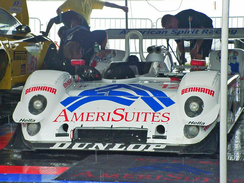 Miami: American Spirit/Amerisuites Riley & Scott Mk III-Lincoln